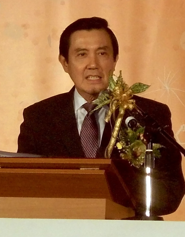 2008 Taipei IT Month - Opening: Ying-jeou Ma, President of the Republic of China.